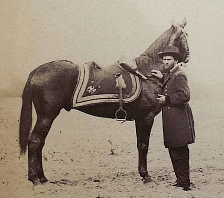 General Grant and horse, Cincinnati, photo, 1864